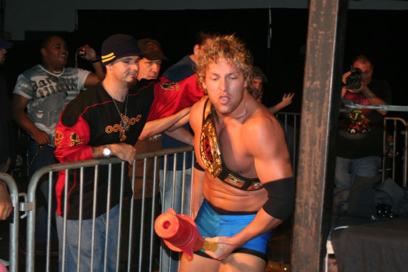 Professional wrestler Kenny Omega (real name Tyson Smith) with JAPW Heavyweight Championship at a Jersey All Pro Wrestling (JAPW) show on November 15, 2008.